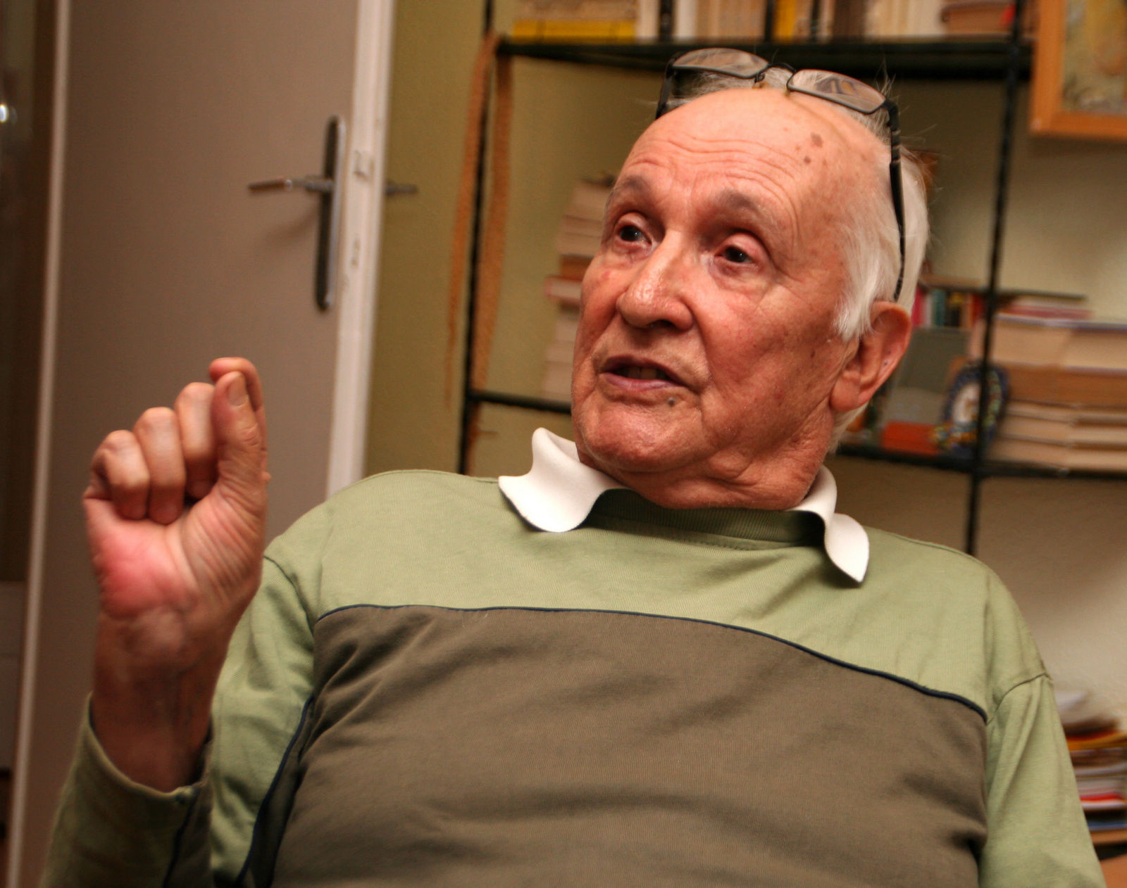 Ion Irimie at home in Cluj Napoca